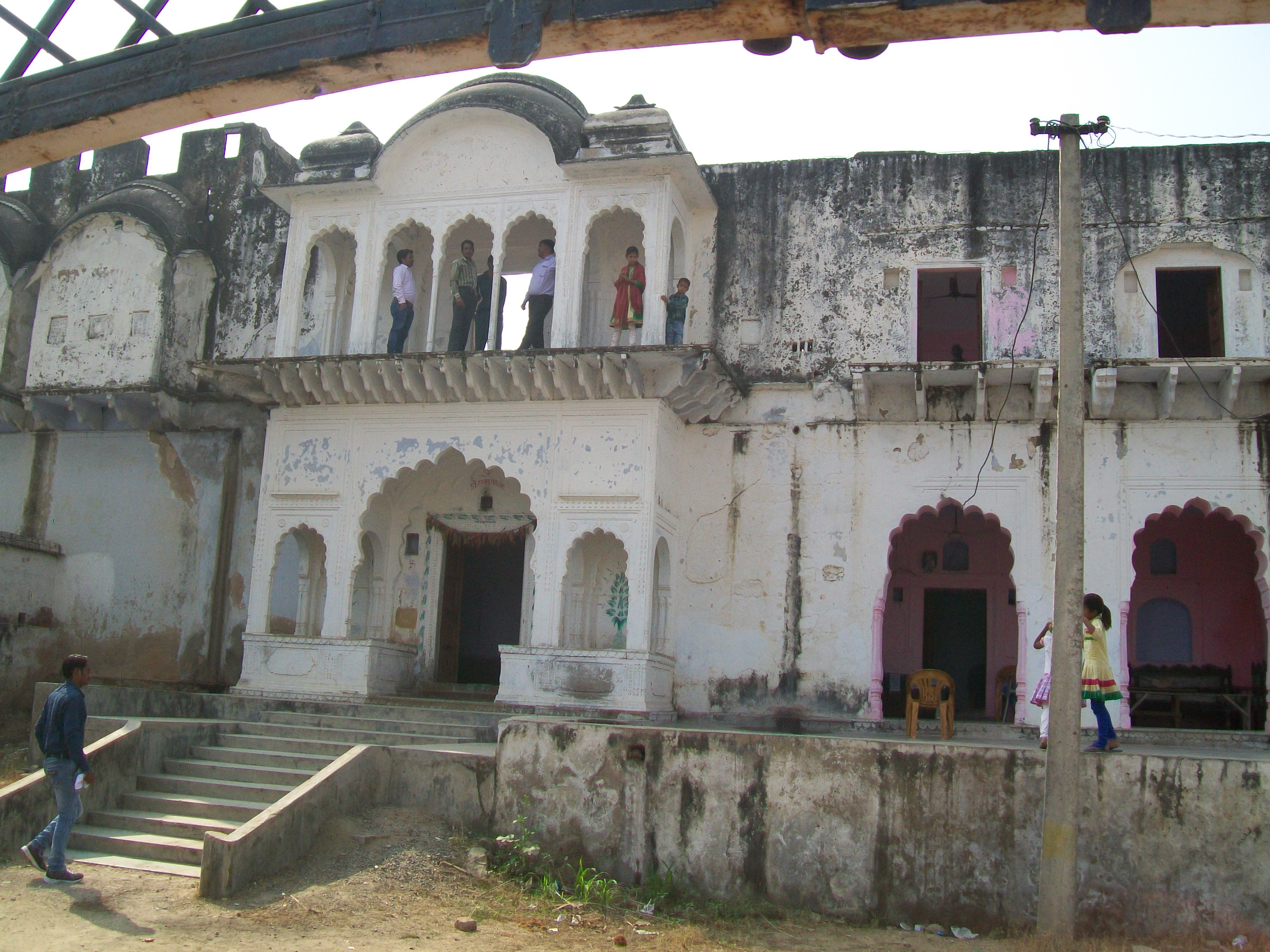 This is the historical Palace/Haweli at Nizamnagr,Alwar belongs to Alwar Royal Family mr.Rao Gulab Singh